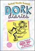 Cover of book, Dork Diaries 4: Tales from a Not-So-Graceful Ice Princess by Rachel Renee Russell